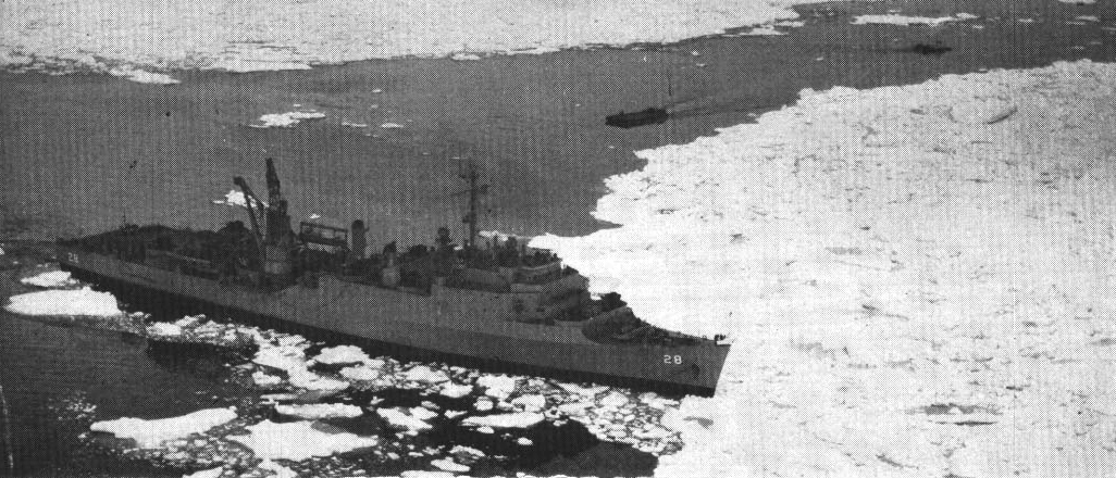 The U.S. Navy dock landing ship USS Thomaston (LSD-28) being offloaded using landing craft during construction of the Distant Early Warning Line in the Arctic. From July through October 1955, Thomaston participated in the "Arctic Resupply Project", provisioning stations on the Distant Early Warning Line before taking part in cold-weather landing exercises in the Aleutians in November 1955 and again in January and February 1956.